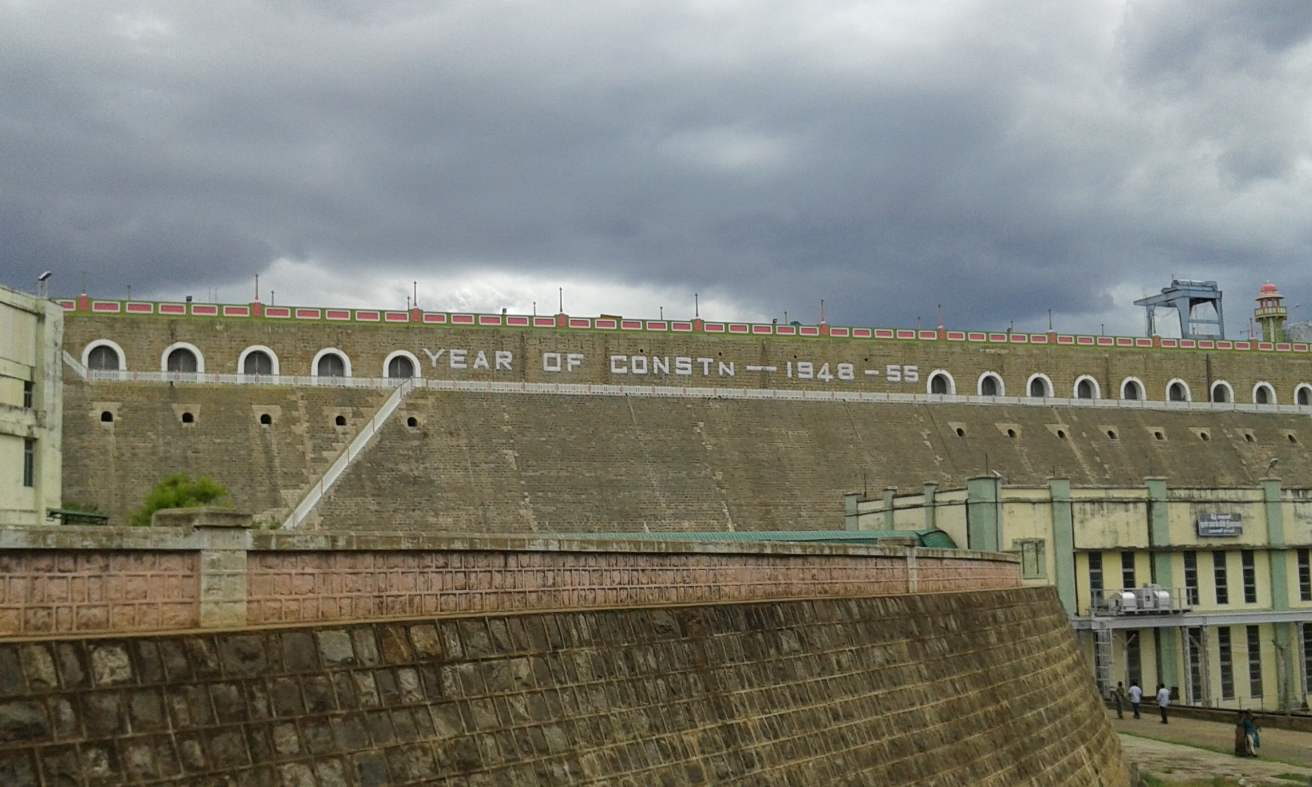 under the rain clouds